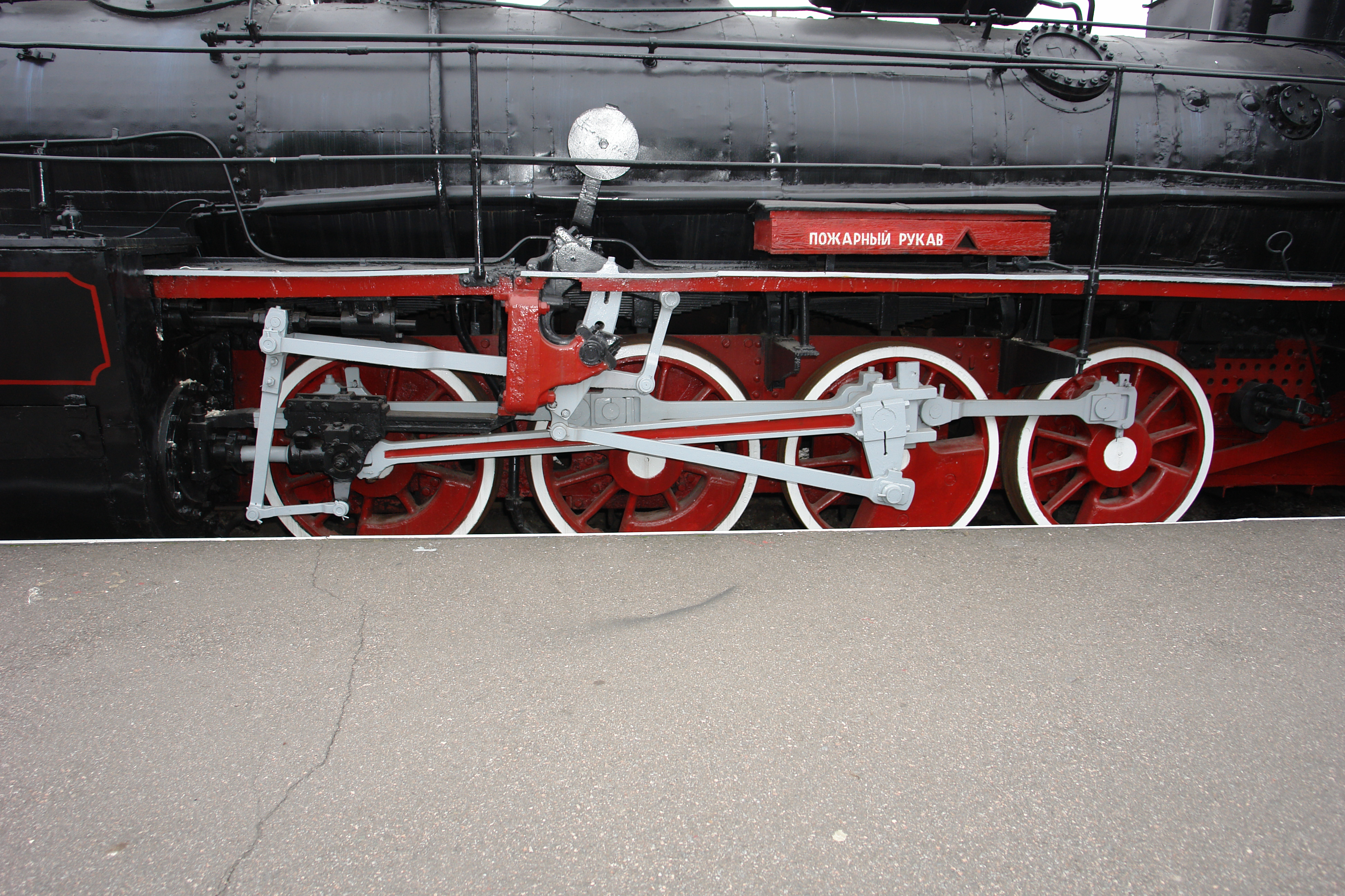 Freight steam locomotive Ov 6640 Weight in working order:excluding tender521 t.including tender951 t.Design speed55 kphMaximum power at wheel rim600 hp